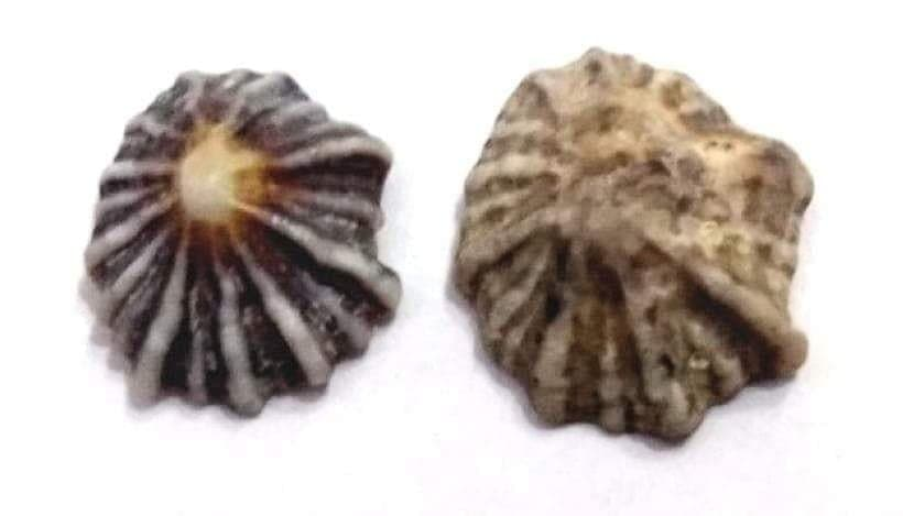 Seashells of the Gastropoda Heterobranchia Siphonaria hispida Hubendick, 1946[1]; upper view. Collected in the Mar Virado cove, municipality of Ubatuba in the state of São Paulo, southeastern Brazil (March 7, 1993). Lives on intertidal rocks among barnacles. RIOS, Eliézer (1994). Seashells of Brazil 2nd Edition. Rio Grande, RS. Brazil: FURG. p. 222. 492 pp. ISBN 85-85042-36-2